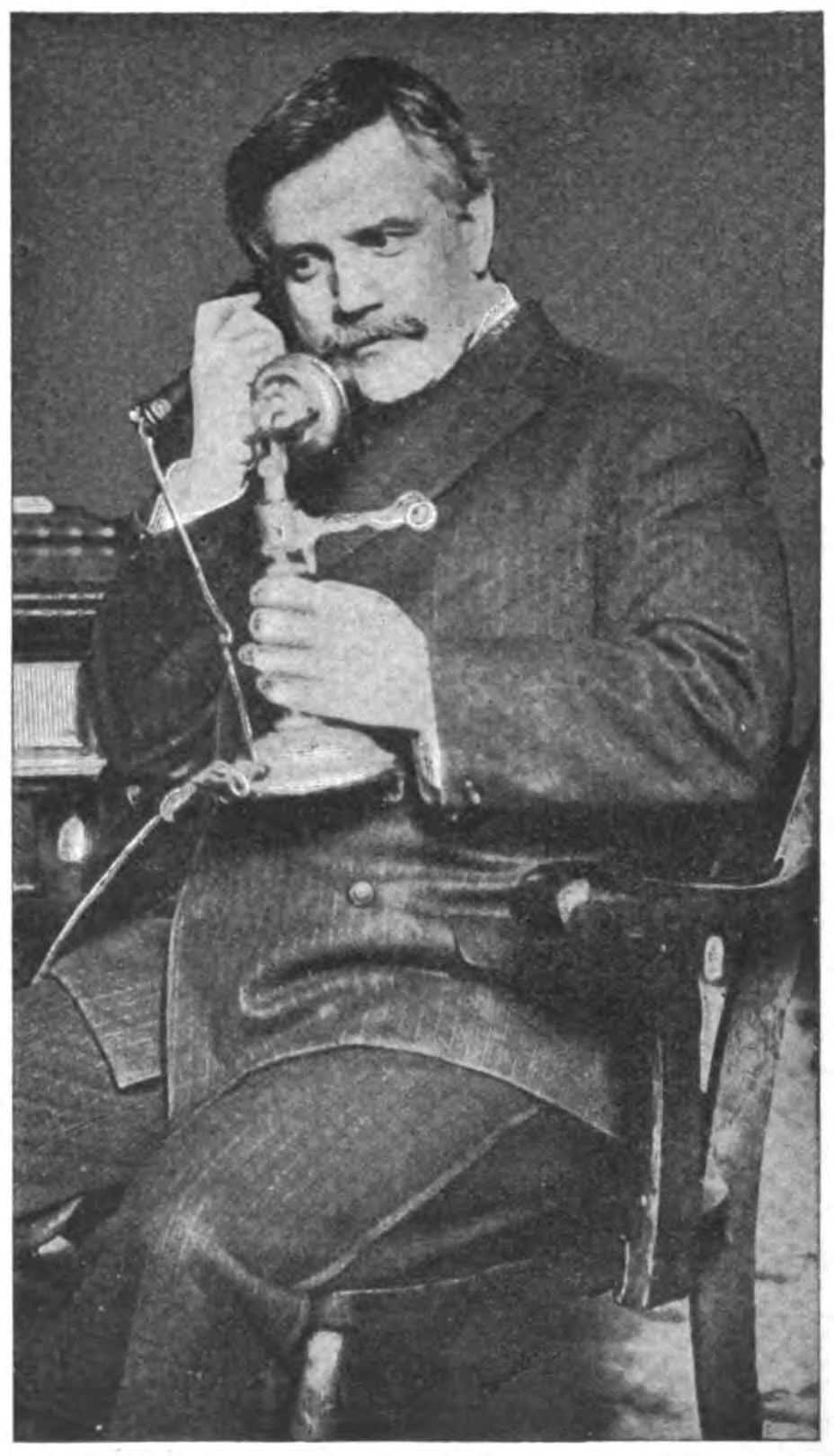 Mayor John Weaver of Philadelphia talking on the telephone